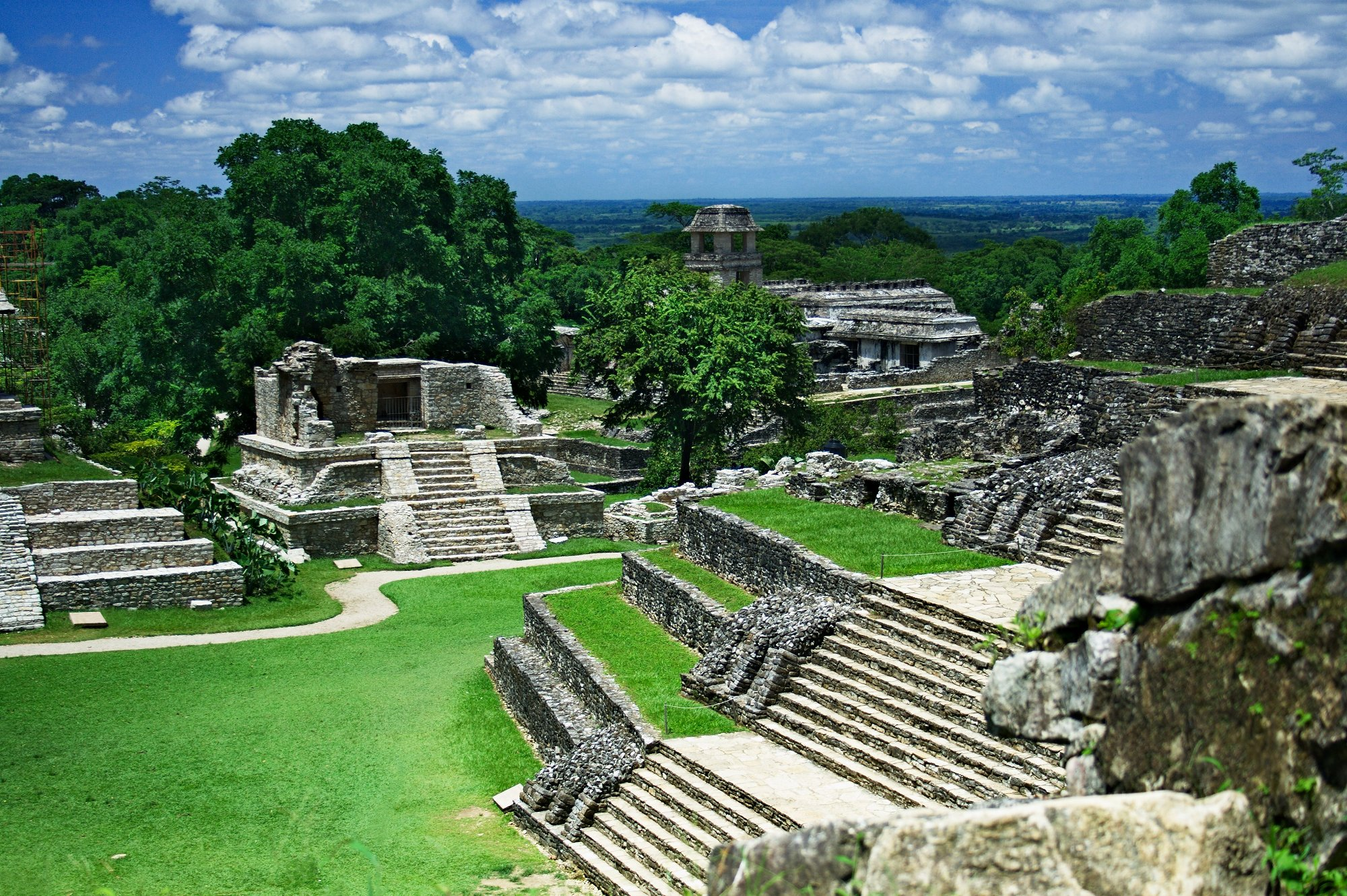 Ruins of Palenque